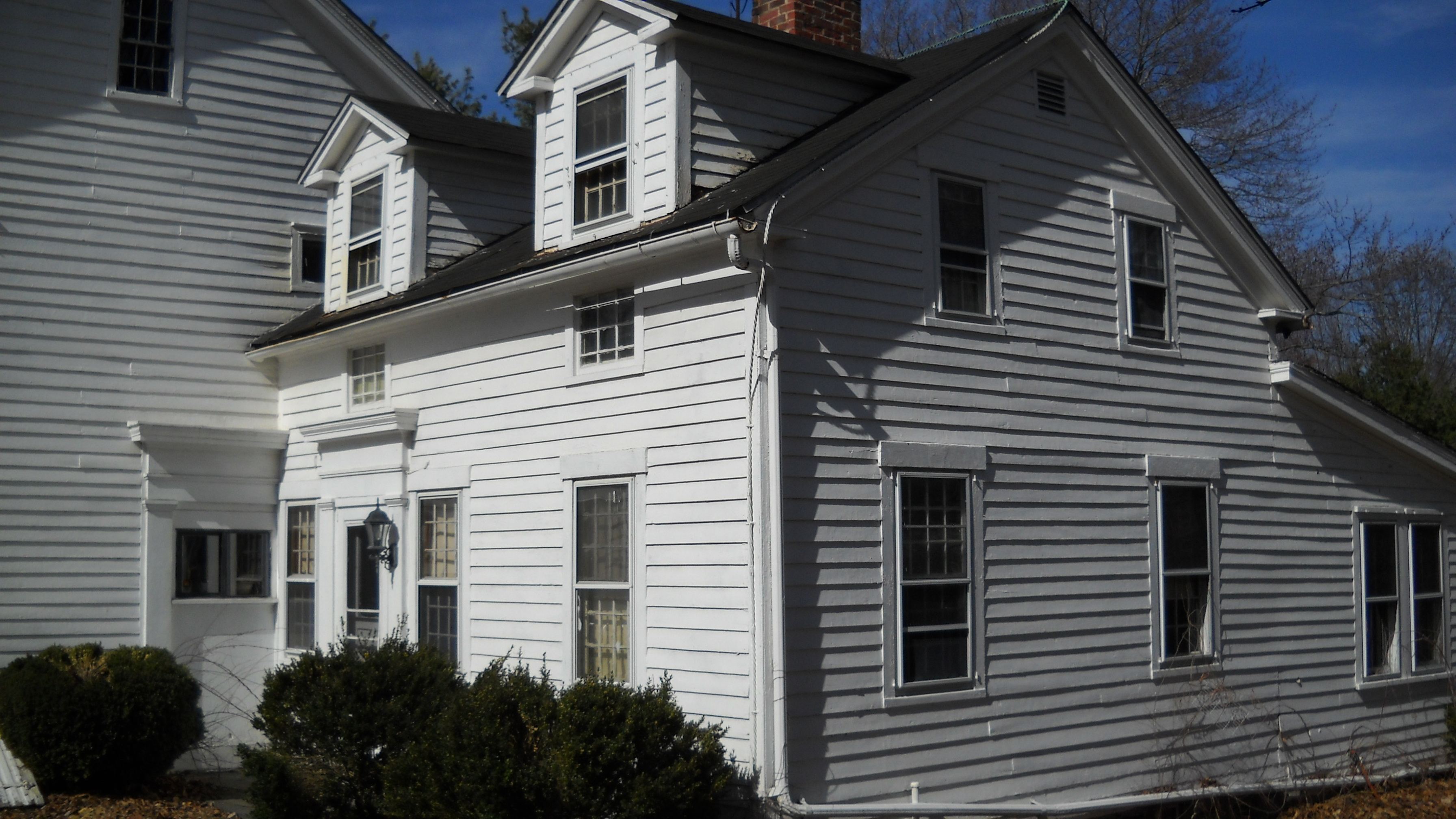 Zachariah Curtiss House ca. 1686 Trumbull, CT